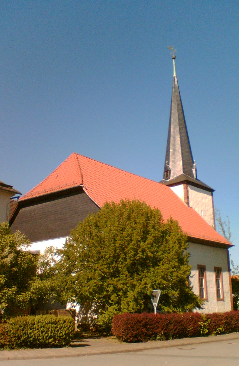 Saint Mary's chapel in Markoldendorf, Germany